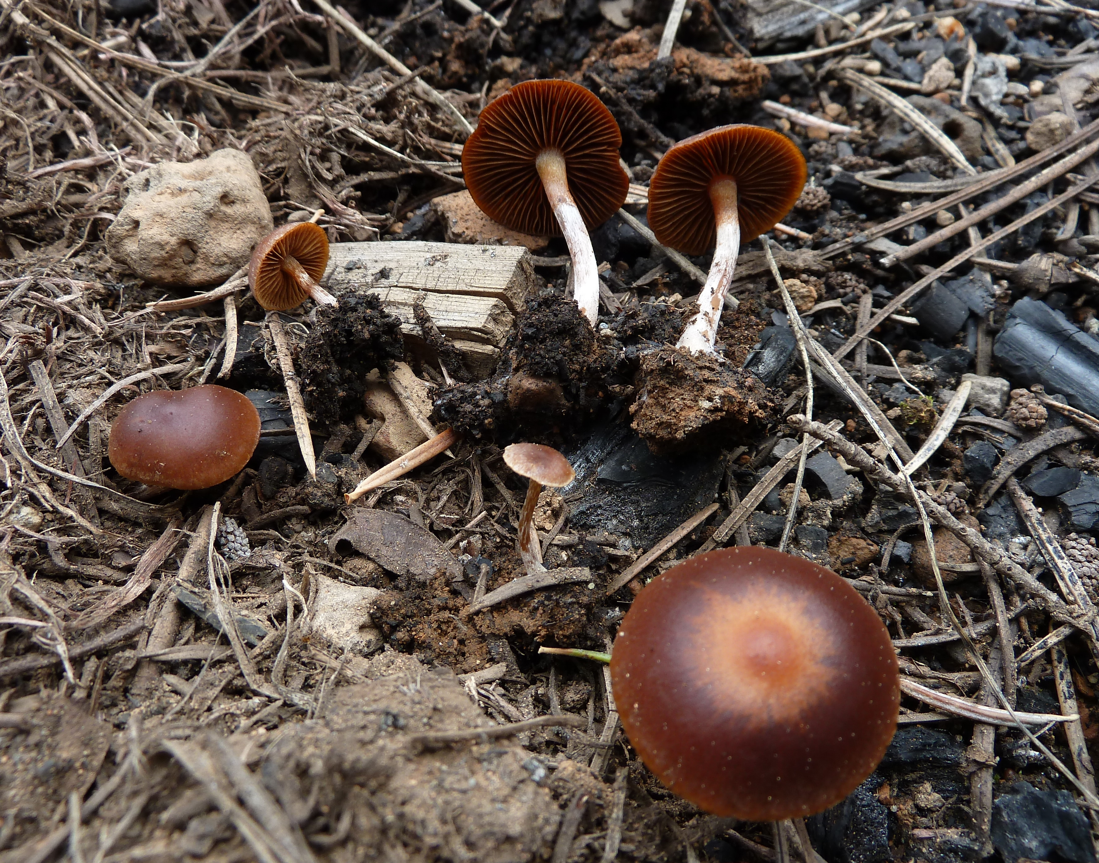 Fruit bodies of the agaric fungus Pachylepyrium carbonicola (A.H. Sm.) Singer. Photographed in Lake Almanor, California, USA. "Notes: Growing in a old burn pile at 4,900 feet elevation."